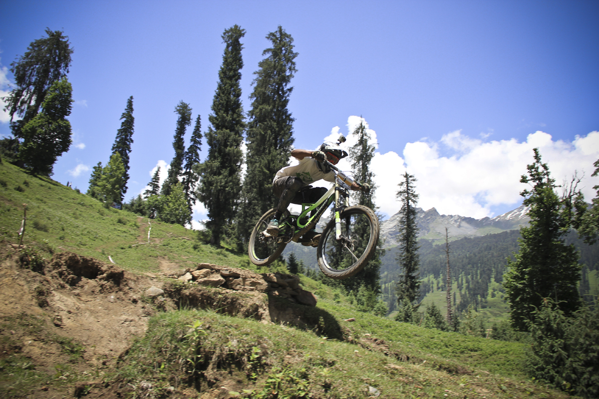 Indian DH racer during the Himalayan Downhill Mountain Bike Trophy.